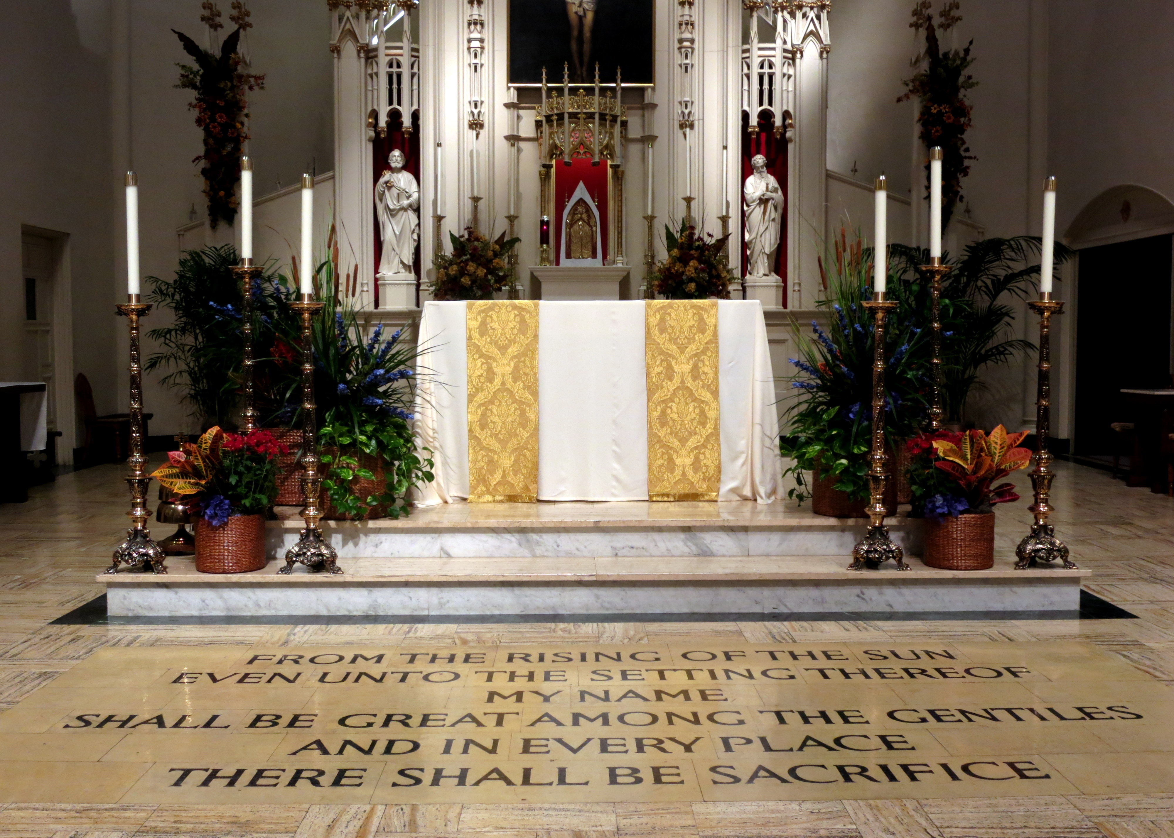 Cathedral of Saint Mary of the Immaculate Conception (Peoria, Illinois) - tabernacle and altar with a quote from Malachi 1:11 pertaining to the Catholic understanding of the Eucharist